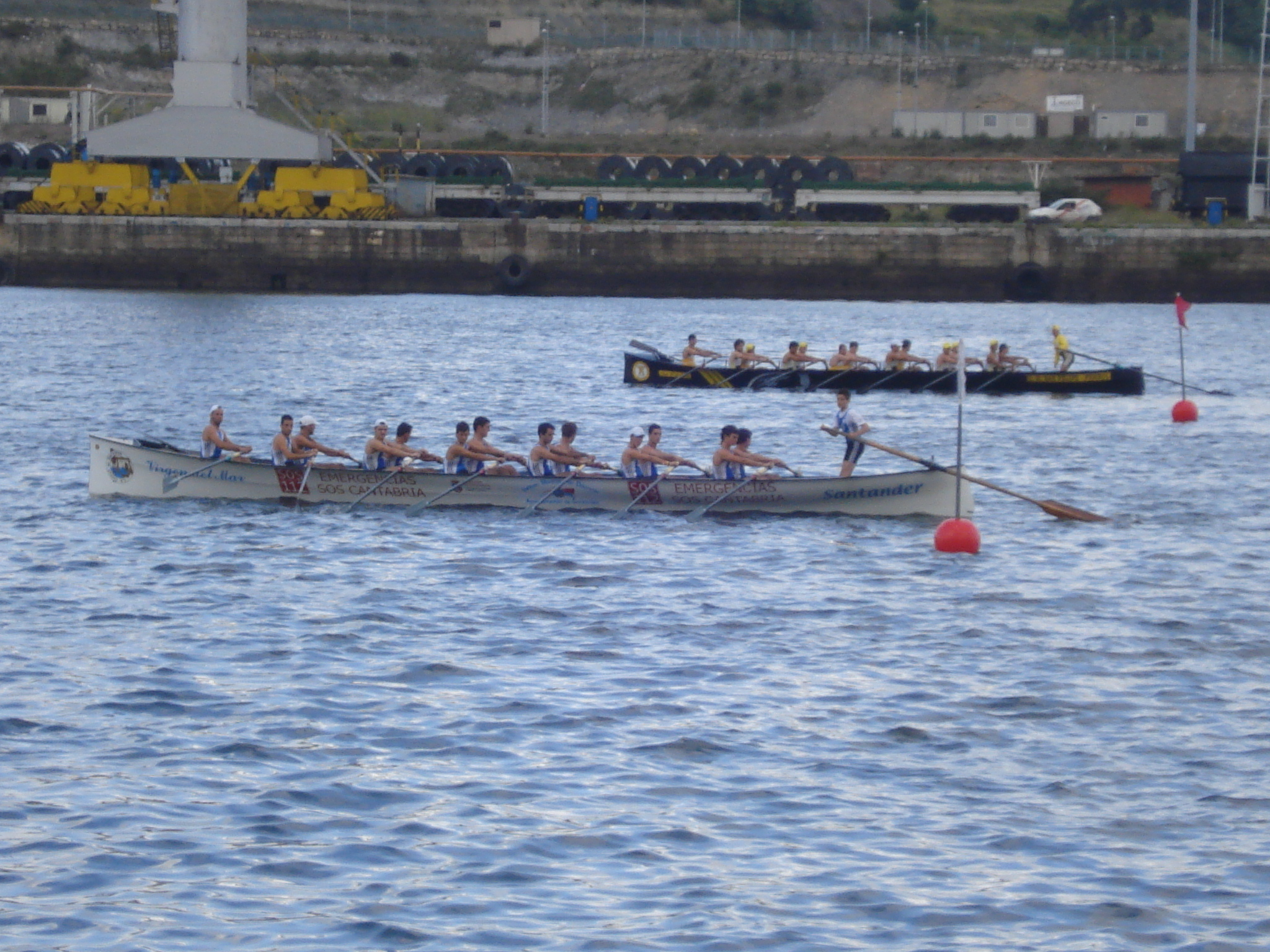 First round of the Centennial Voice of Aviles Regatta 2007